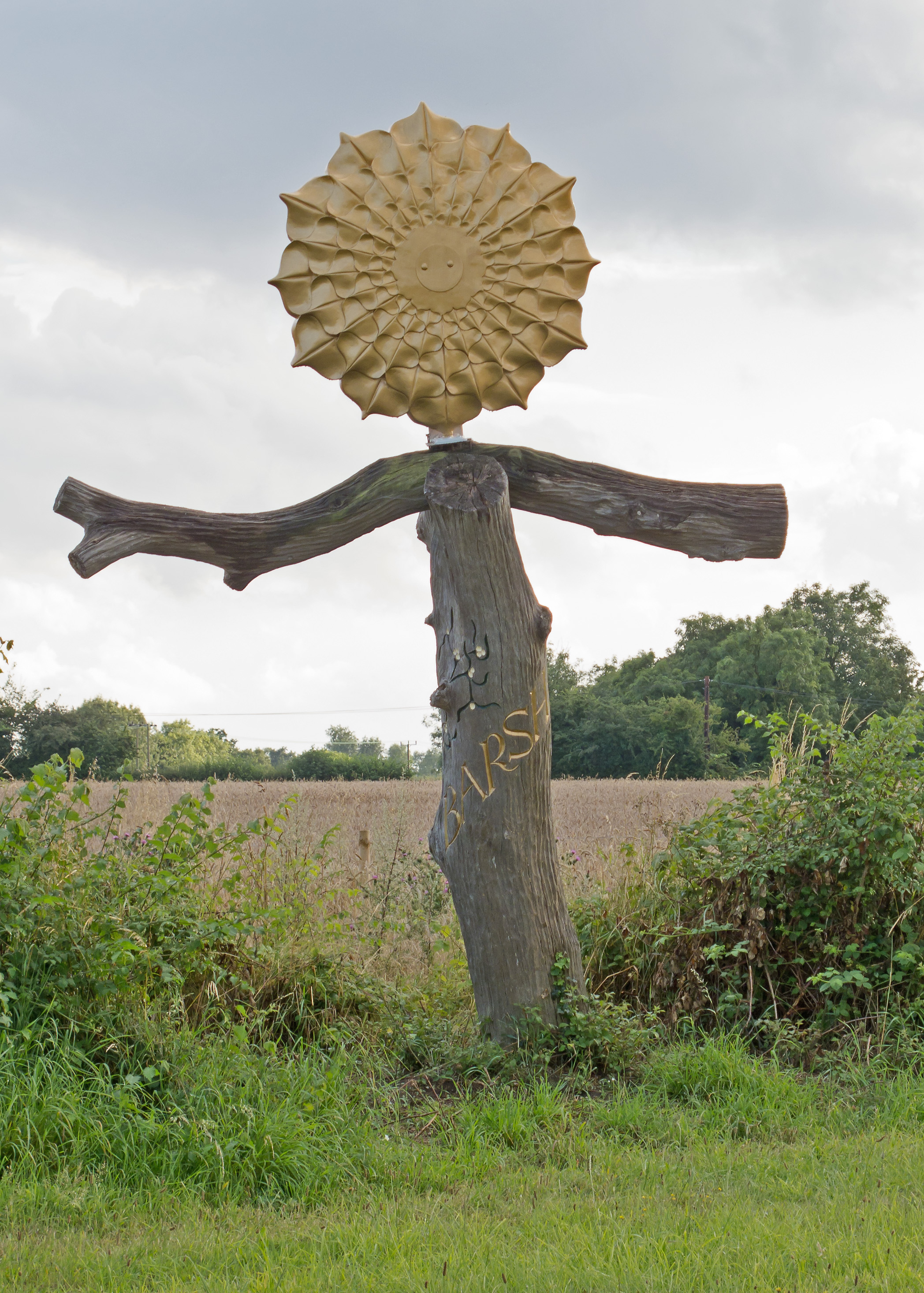 Barsham Village Sign (Front)